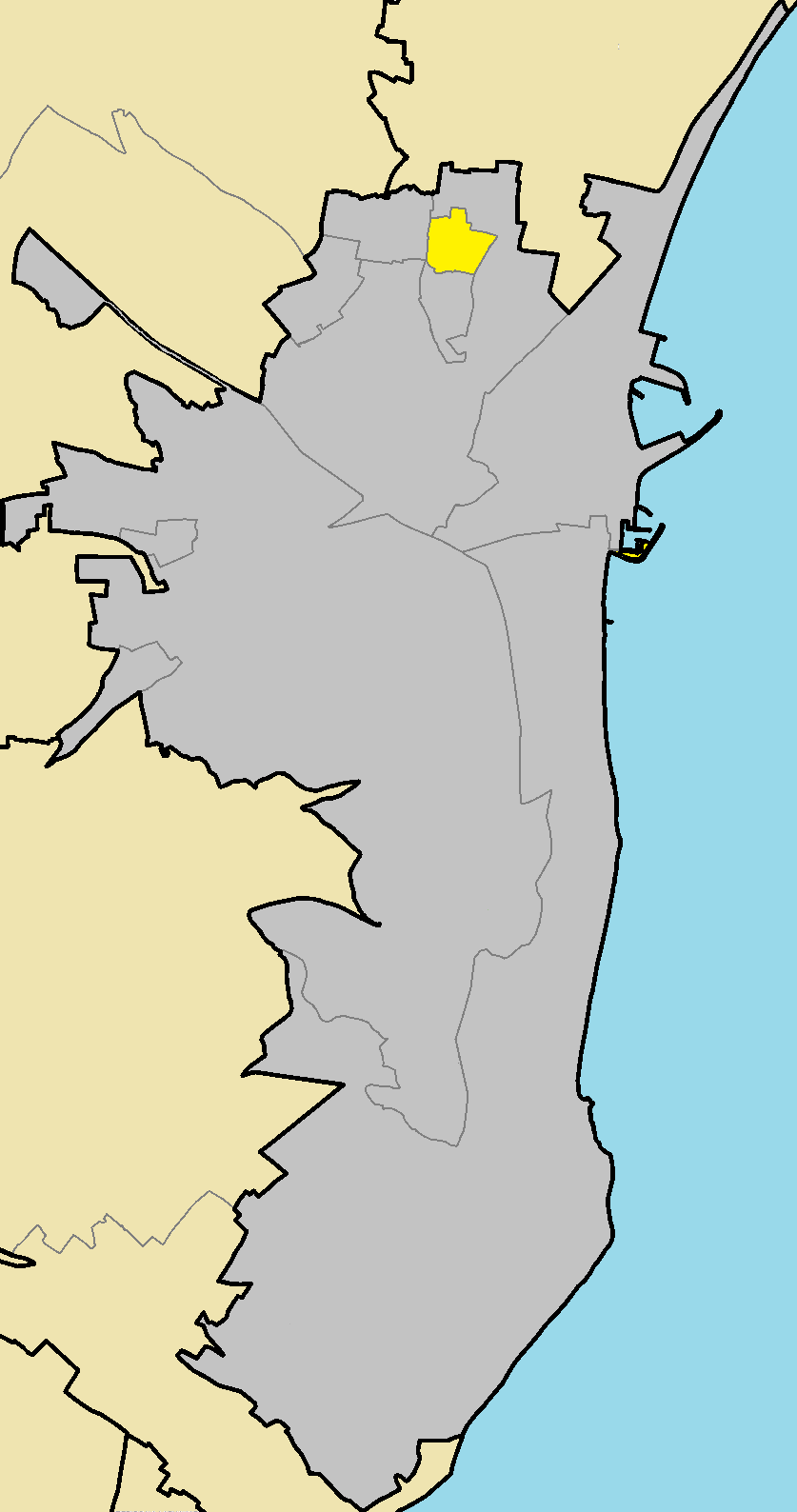 Agioi Anargyroi I in Larnaca Municipality.